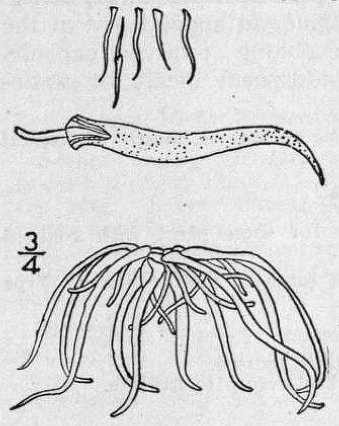 Wolffiella gladiata botanical drawing